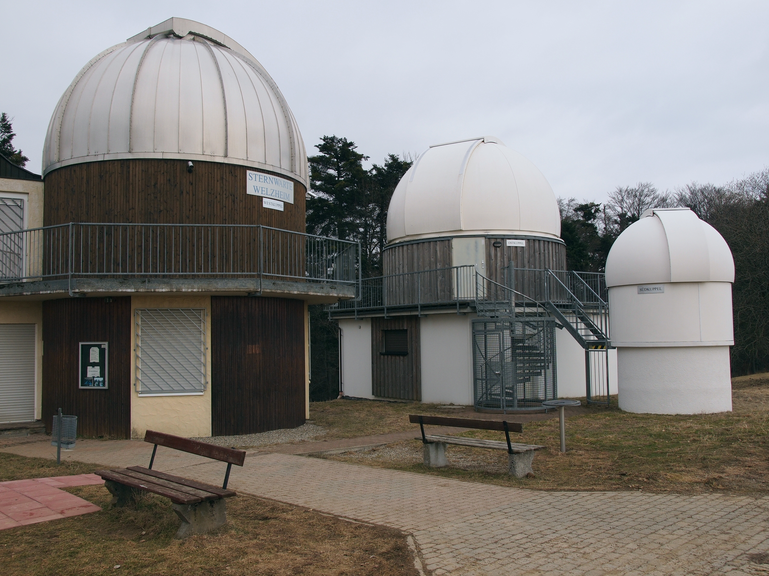 Welzheim observatory